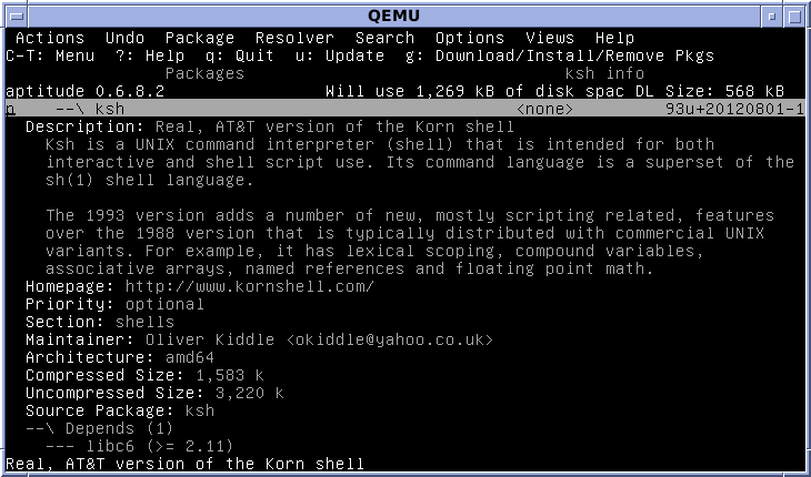 Viewing package details through "aptitude" on Debian GNU/Linux 7.